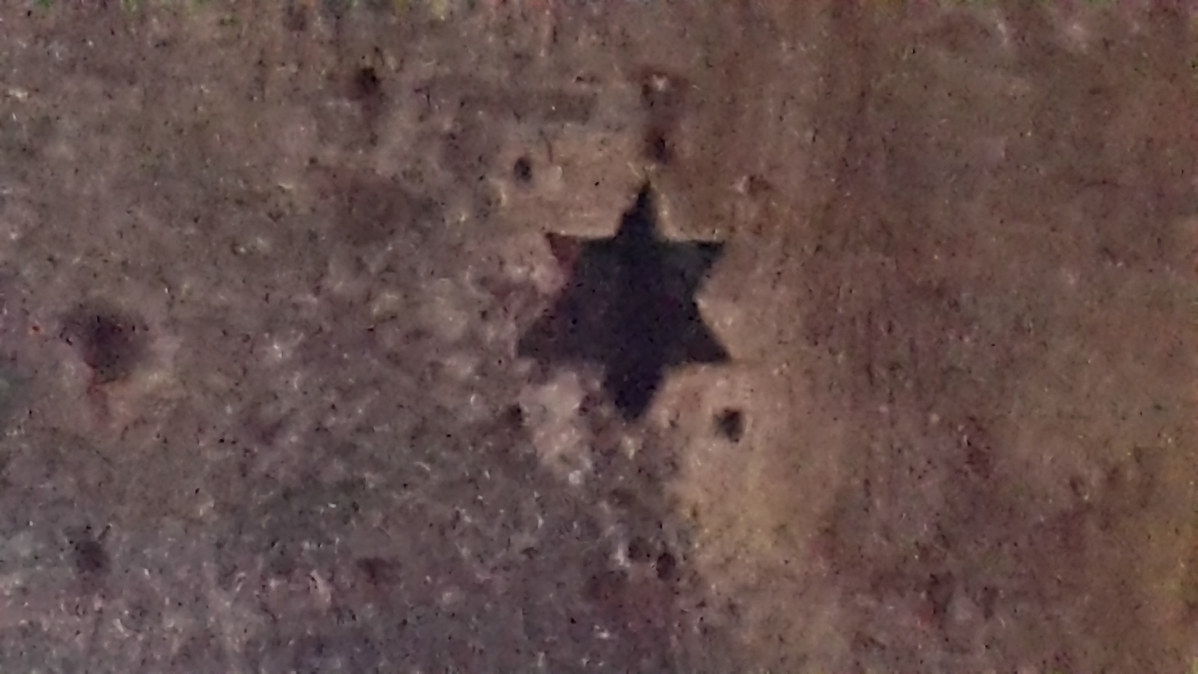 Star of David at Staszic Chamber in Wieliczka Salt Mine was carved by Jews that had been transported from the forced labour camps in Plaszow and Mielec During the Nazi occupation of Poland.